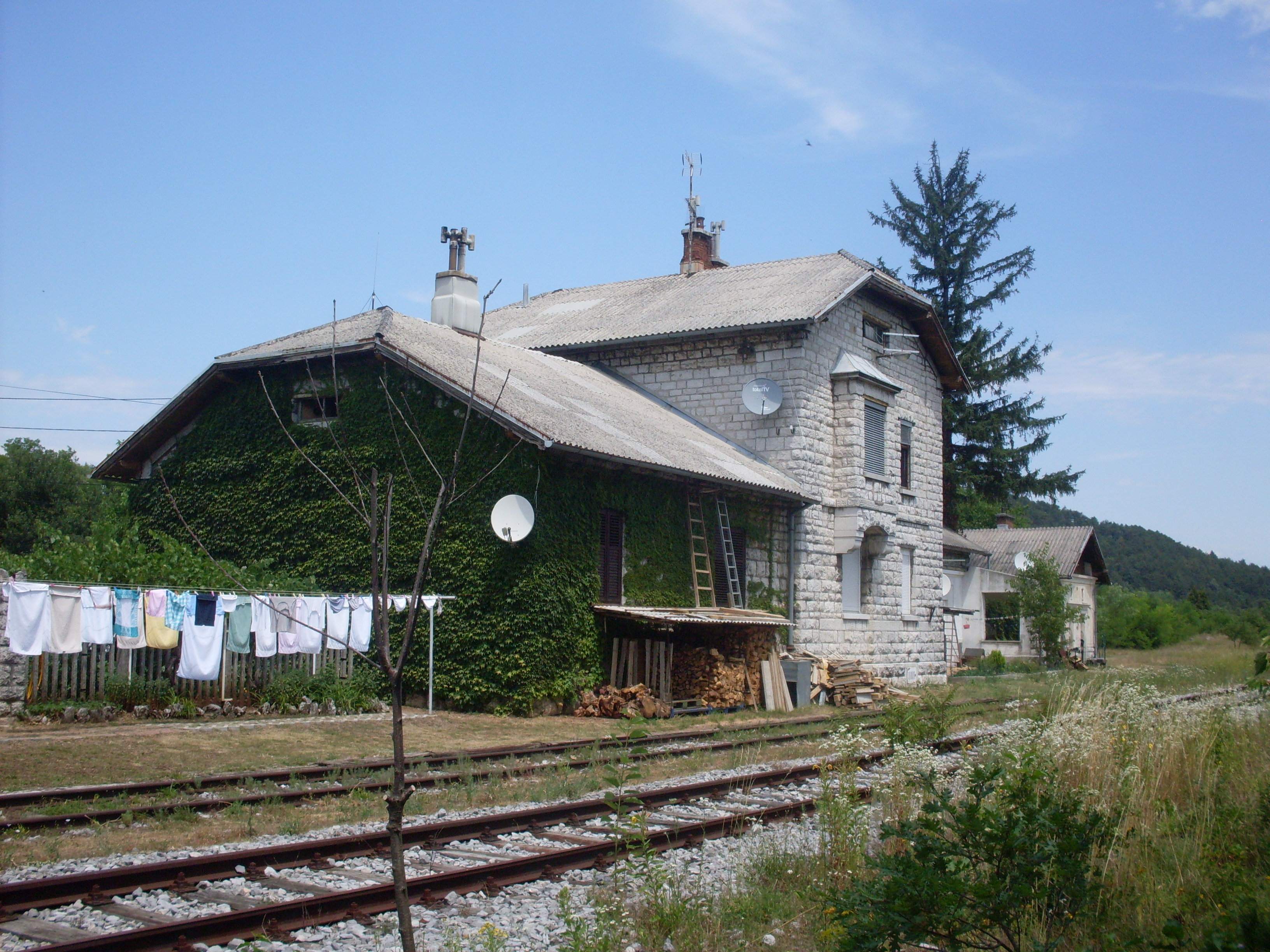 Former train station Repentabor (named after nearby Monrupino in the present day Italy) in Dol pi Vogljah on the original route of the Bohinj railway (going towards Trieste)